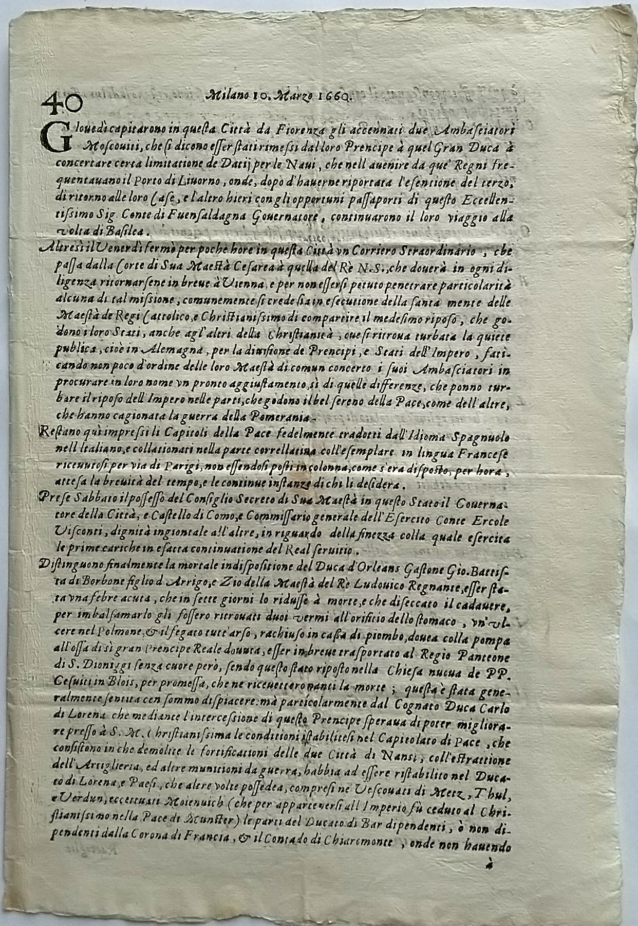 Milano (newspaper) number 10 March 1660